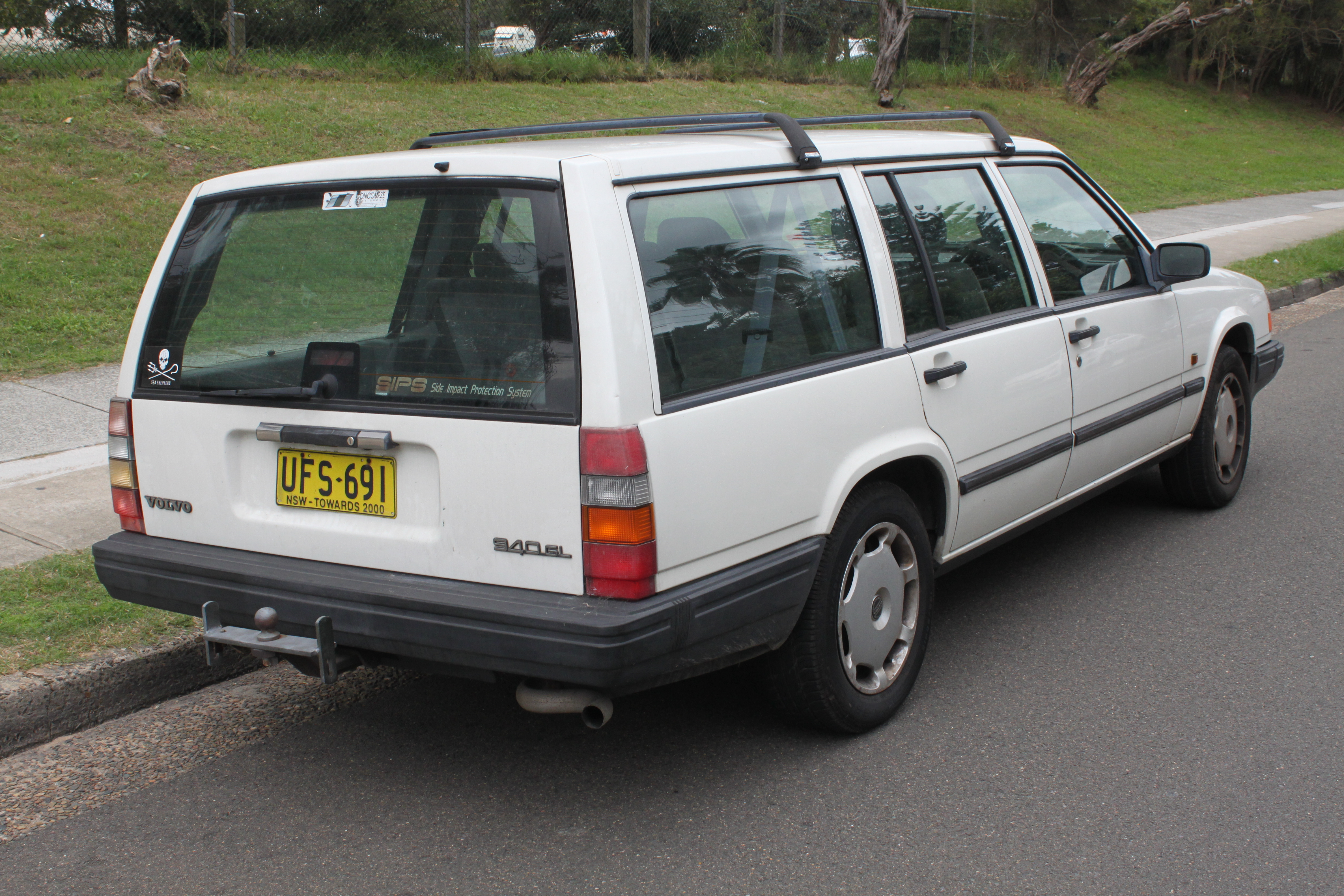 Volvo 940GL Wagon